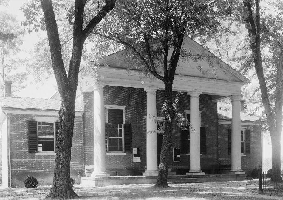 Nottoway County Courthouse, State Route 625, Nottoway Court House (Nottoway County, Virginia) cropped HABS VA,68-NOT,1-1 This file comes from the Historic American Buildings Survey (HABS), Historic American Engineering Record (HAER) or Historic American Landscapes Survey (HALS). These are programs of the National Park Service established for the purpose of documenting historic places. Records consist of measured drawings, archival photographs, and written reports. When reusing please credit: Library of Congress, Prints & Photographs Division, VA-812 This tag does not indicate the copyright status of the attached work. A normal copyright tag is still required. See Commons:Licensing for more information. English | +/− This work is in the public domain in the United States because it is a work prepared by an officer or employee of the United States Government as part of that person’s official duties under the terms of Title 17, Chapter 1, Section 105 of the US Code. See Copyright. Note: This only applies to original works of the Federal Government and not to the work of any individual U.S. state, territory, commonwealth, county, municipality, or any other subdivision. This template also does not apply to postage stamp designs published by the United States Postal Service since 1978. (See § 313.6(C)(1) of Compendium of U.S. Copyright Office Practices). It also does not apply to certain US coins; see The US Mint Terms of Use. This file has been identified as being free of known restrictions under copyright law, including all related and neighboring rights.